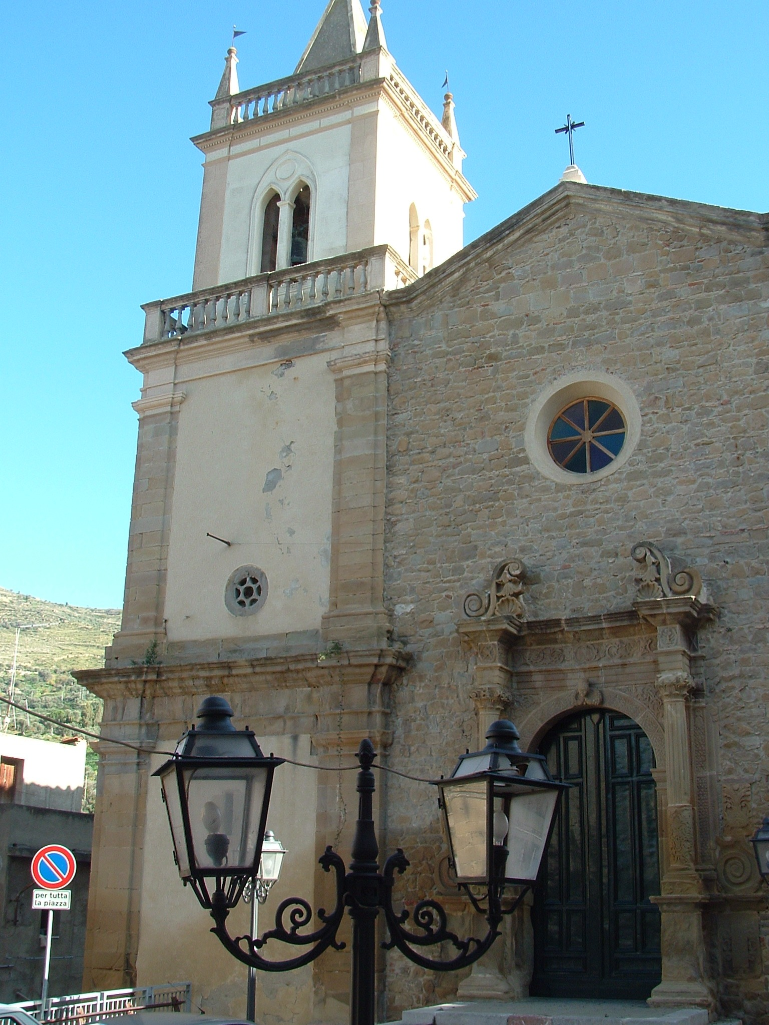 Church Chiesa di Sant’Oliva in Pettineo, Province of Messina, Sicily, Italy